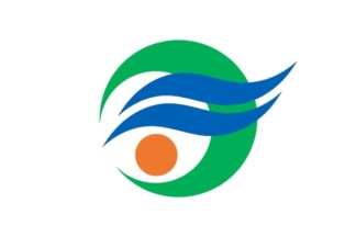 Flag of Kinko Kagoshima